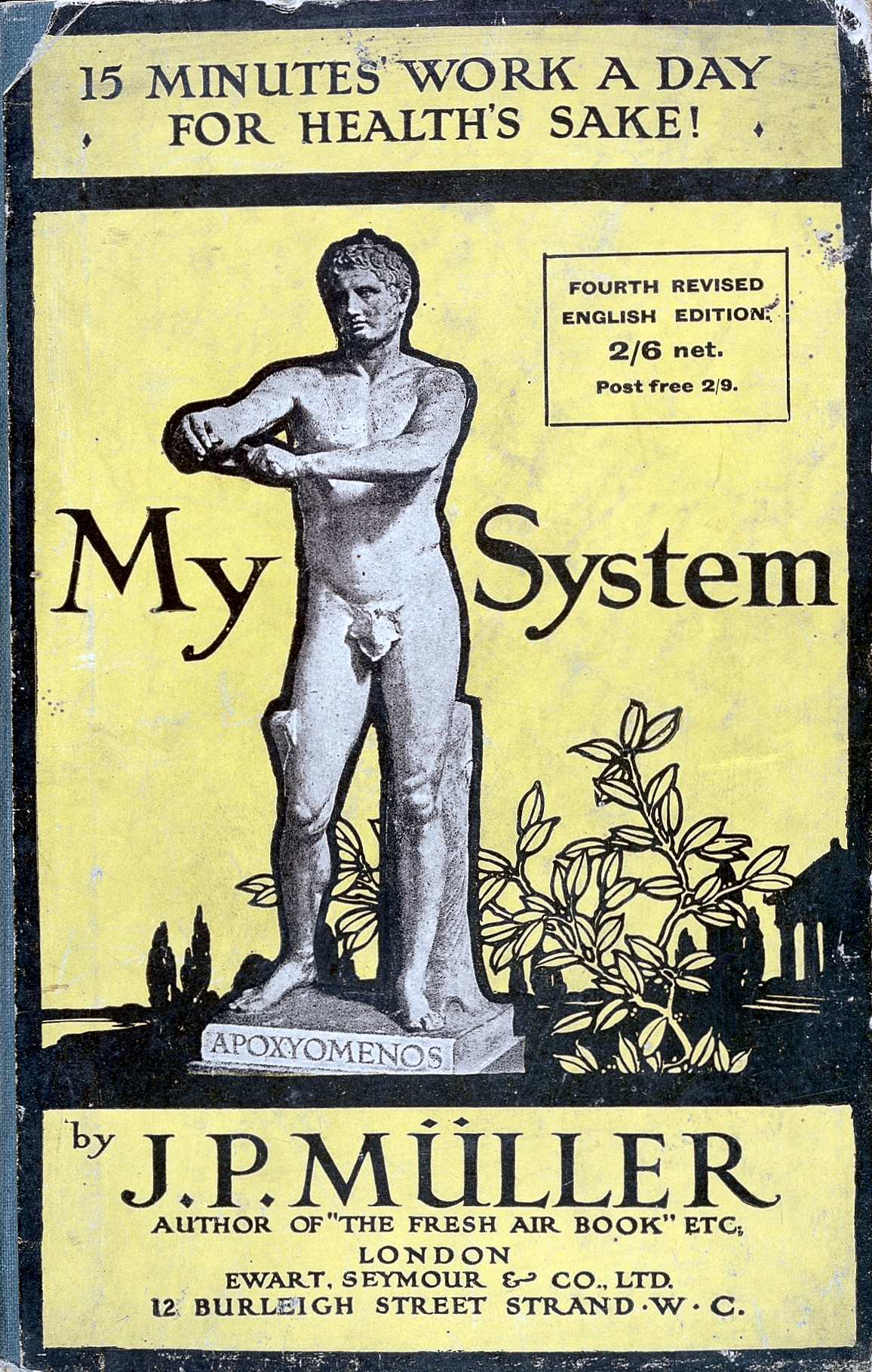 MULLER, J.P. Front cover Wellcome Images Keywords: FITNESS